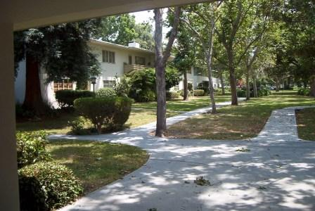 Village Green, also known as Baldwin Hills Village.